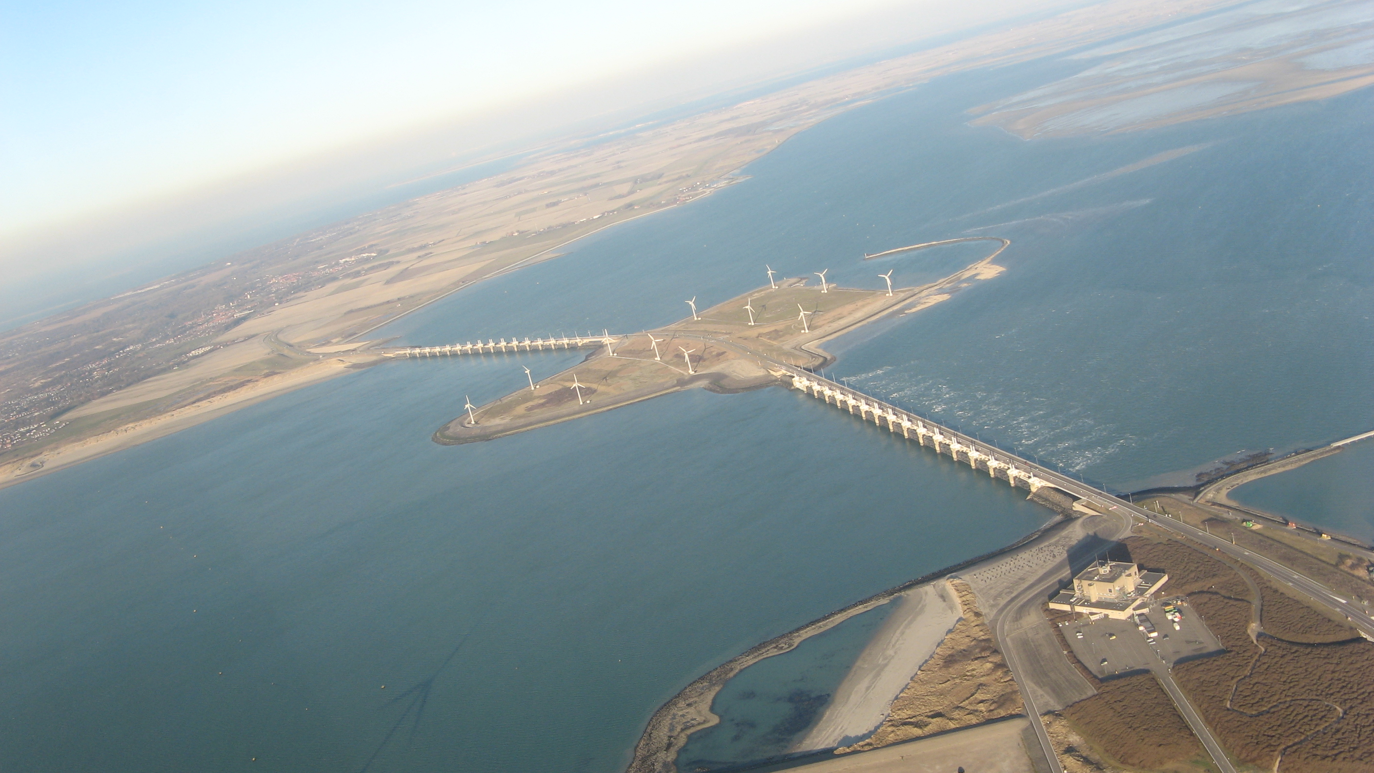 The Oosterscheldekering seen from the sky.